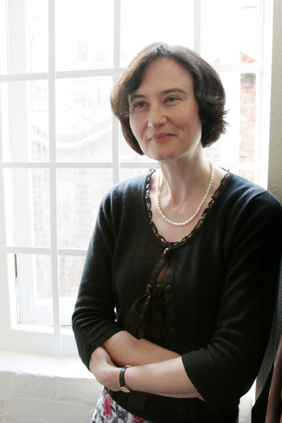 Portrait of poet Fiona Sampson